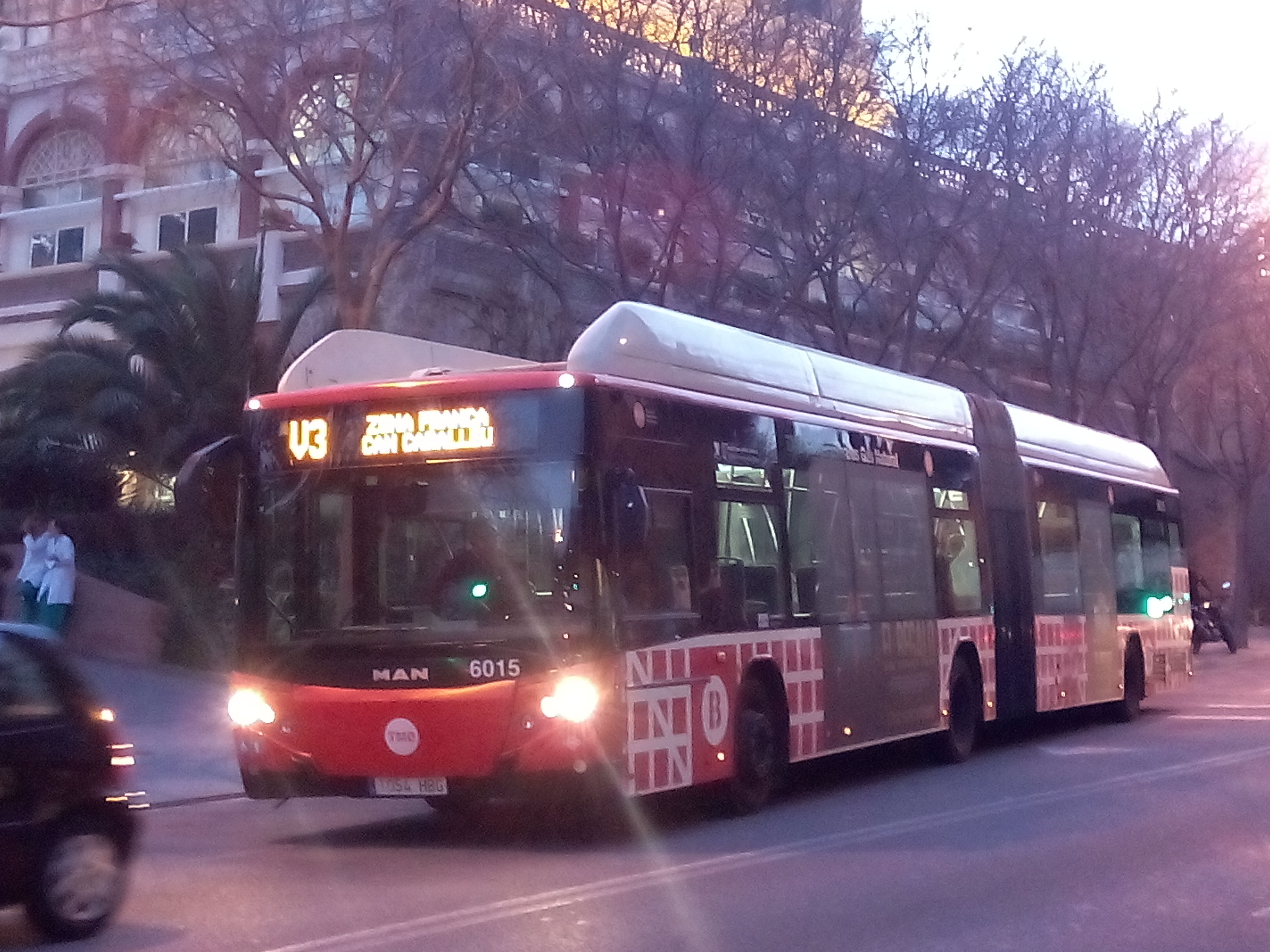 Barcelona Line V3 bus in J.V. Foix Promenade (exiting 2390 - Av. J.V.Foix-Pg. Reina Elisenda stop=